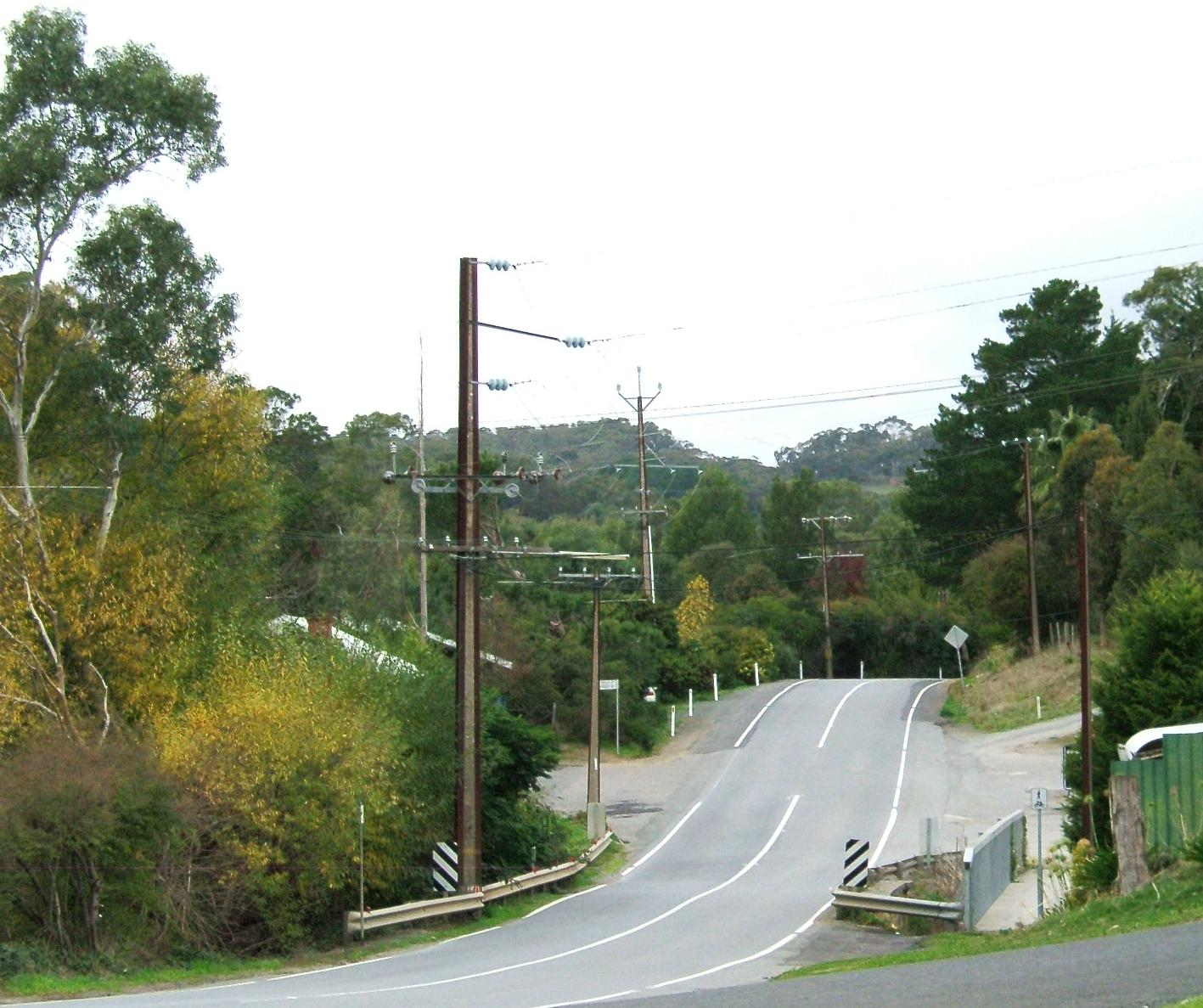 Inglewood, South Australia